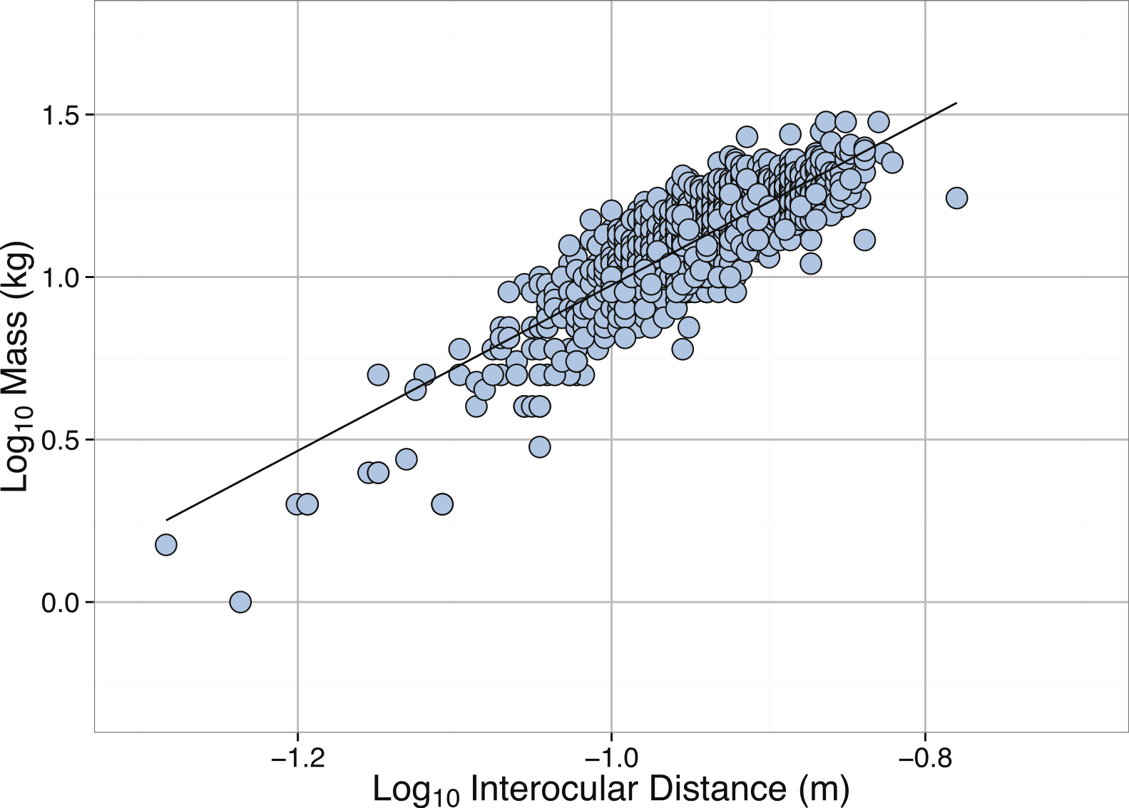 Figure 11: Linear regression between Log10 Interocular Distance (m) and Log10 Mass (kg) for Enteroctopus dofleini.